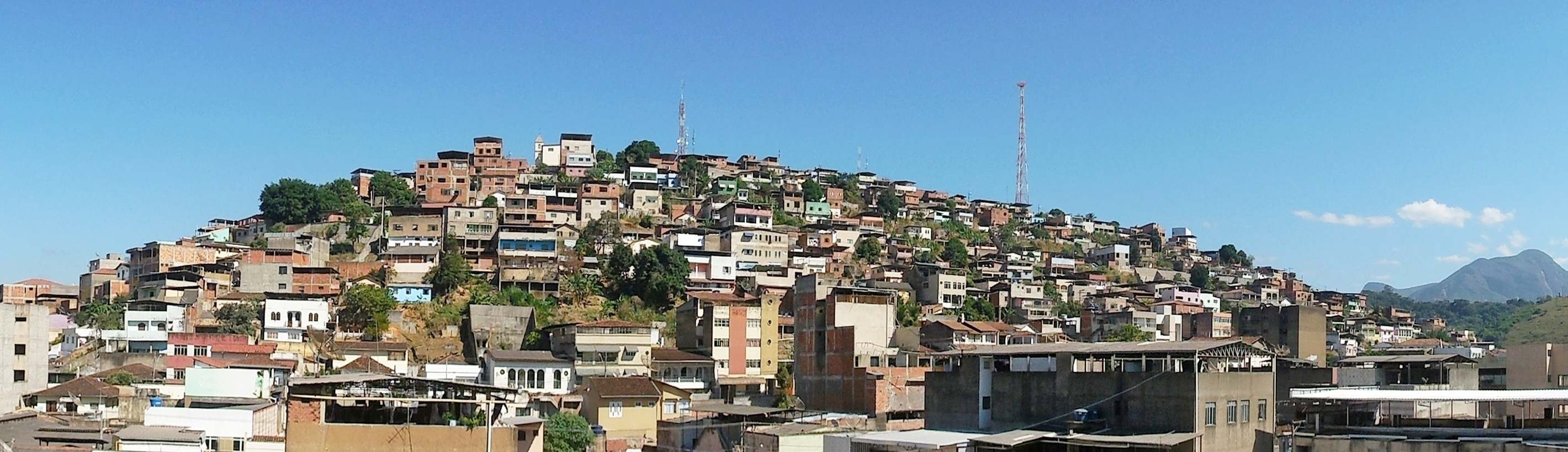 Panoramic view of the Nossa Senhora do Carmo neighborhood (Morro do Carmo), in Coronel Fabriciano, Minas Gerais, Brazil.